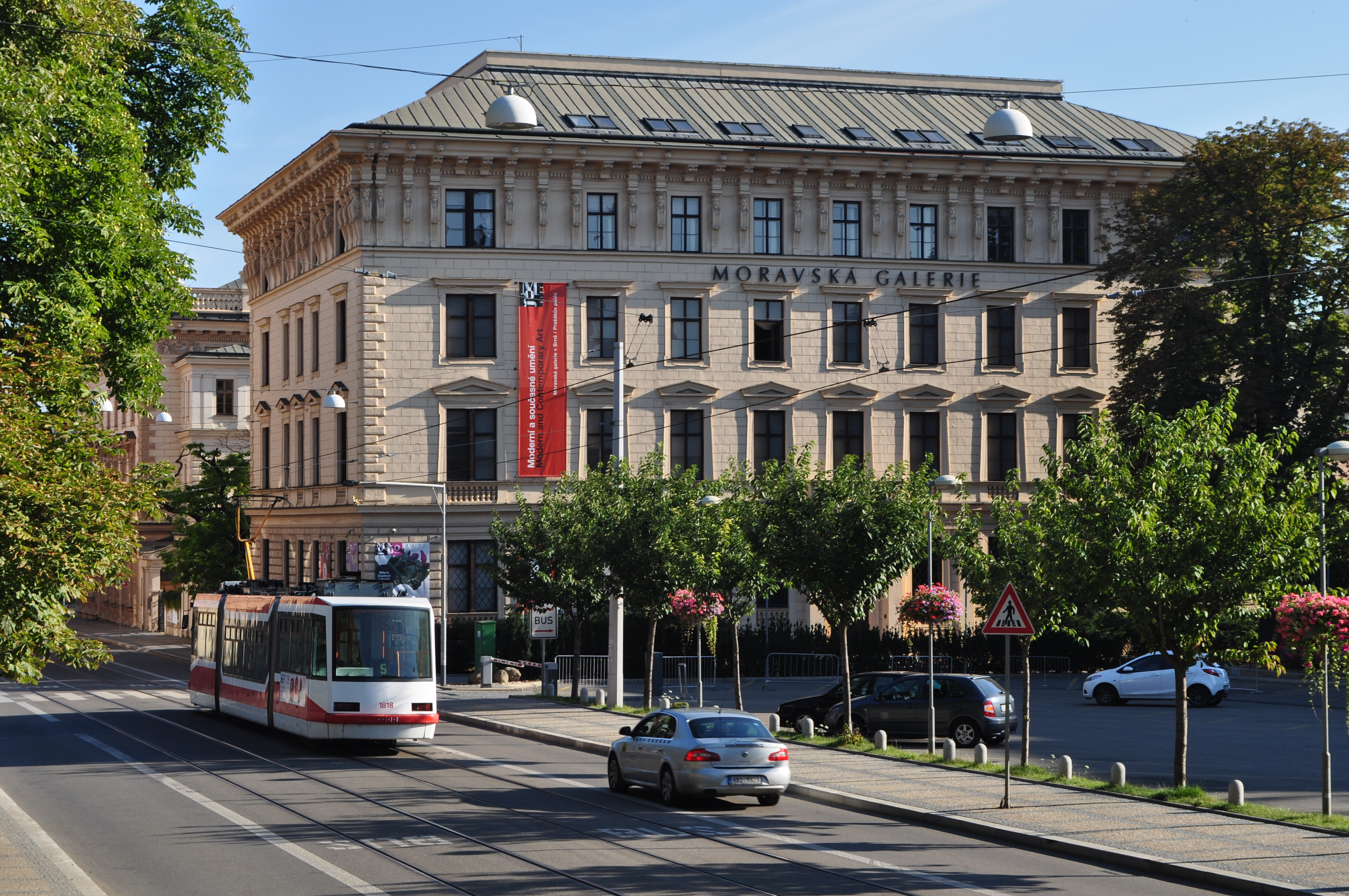 Pražák Palace in Brno (Moravia, Czech republic, European Union), a part of the Moravian gallery